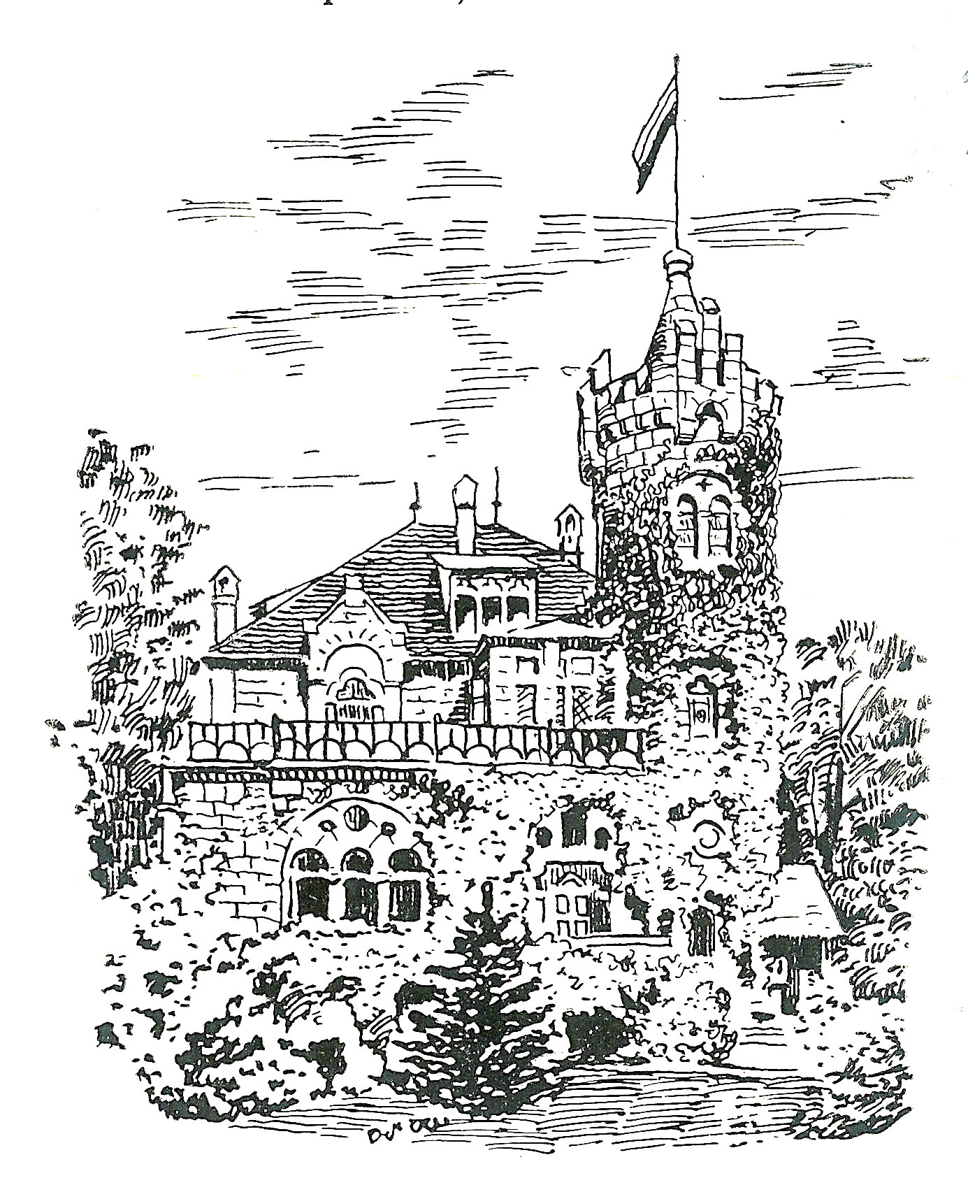 House of student fraternity Corps Saxonia Jena (Germany), Knebelstrasse 2